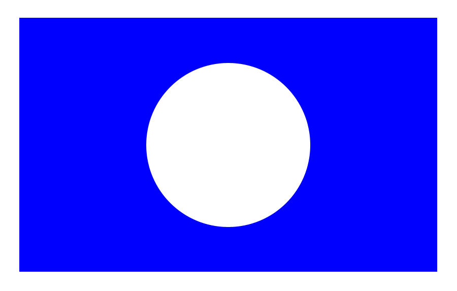 Battle flag of General Hardee's Corps at the Battle of Shiloh. Later used as a standard for the whole Army of Mississippi